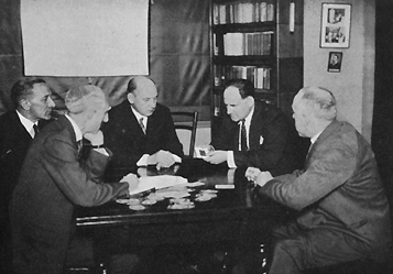 The mentalist Frederick Marion (back right) being tested at the National Laboratory of Psychical Research in a card experiment by the psychical researchers Samuel Soal (middle) and Harry Price (right).